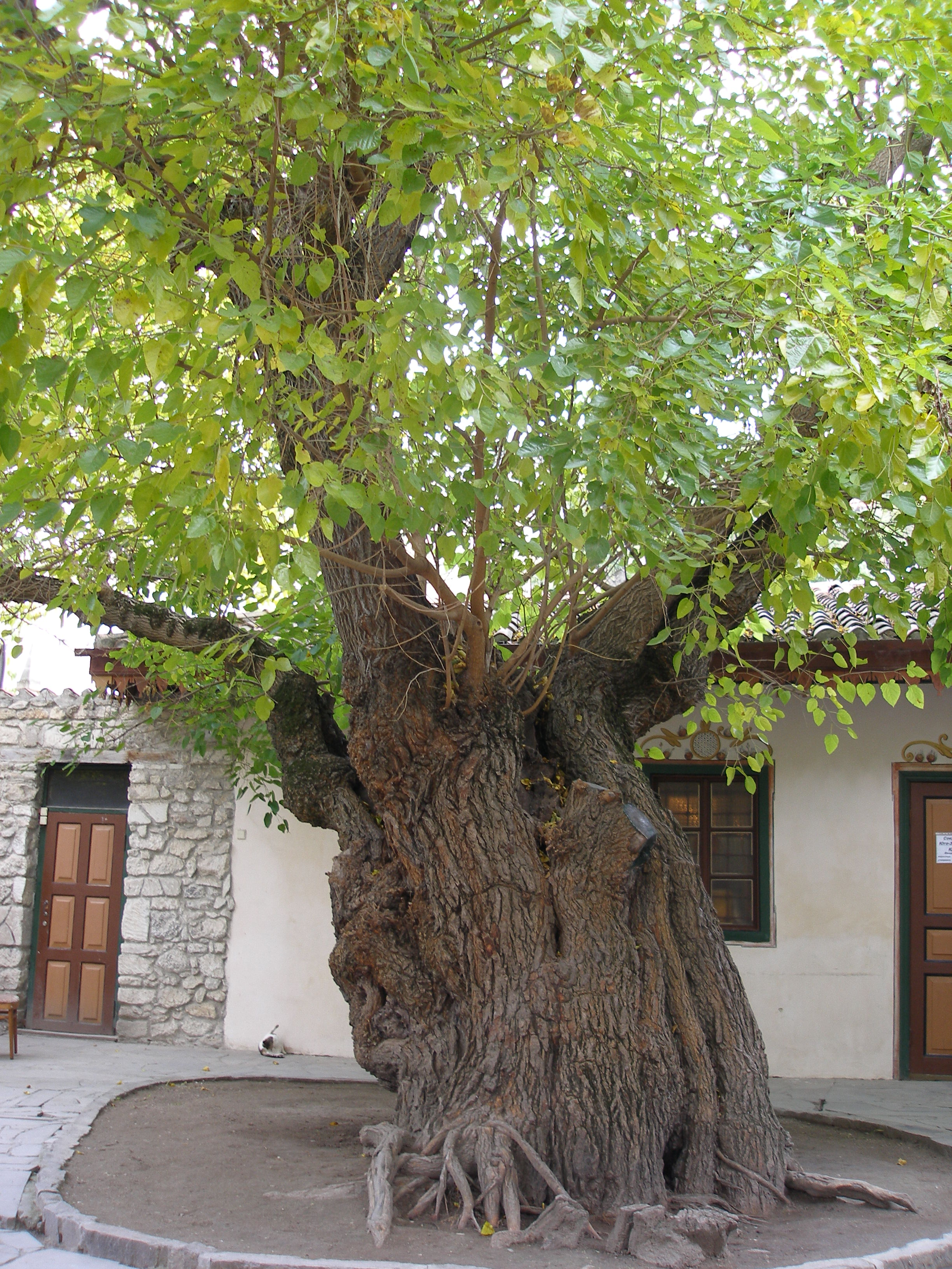 Mulberry of Girays